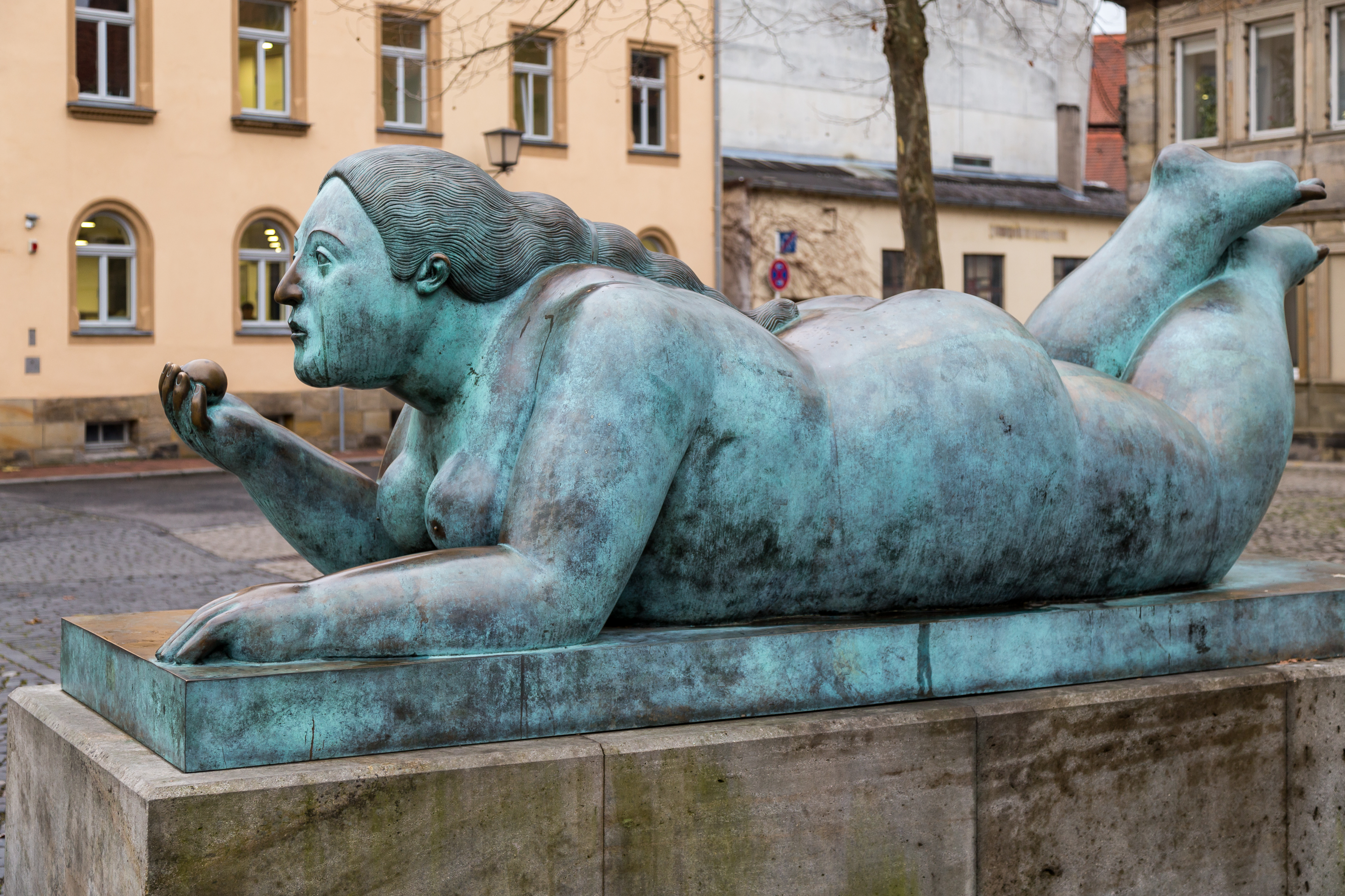 Woman with fruit, sculpture by Fernando Botero in Bamberg/Germany